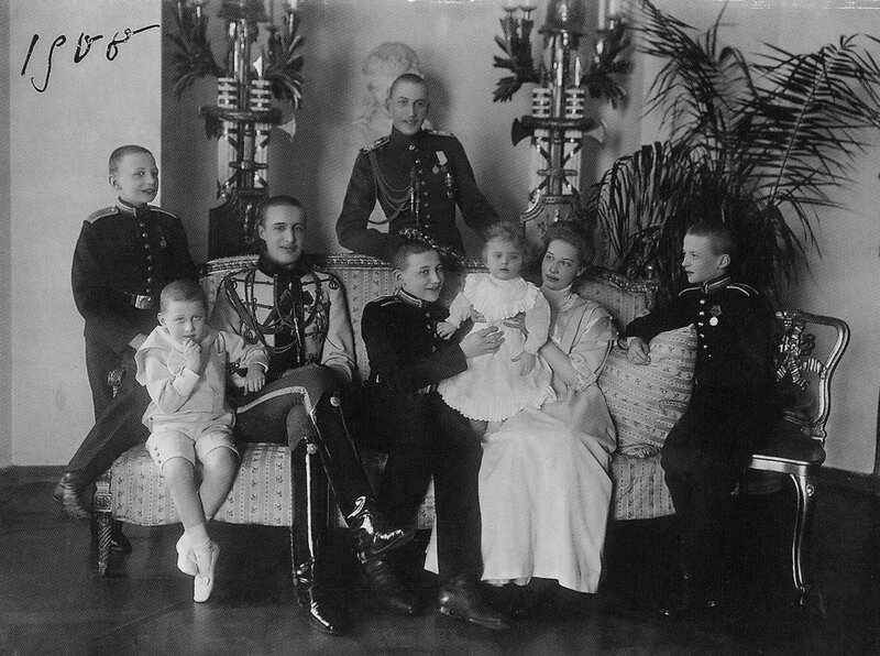 Children of Grand Duke Konstantin Konstantinovich of Russia